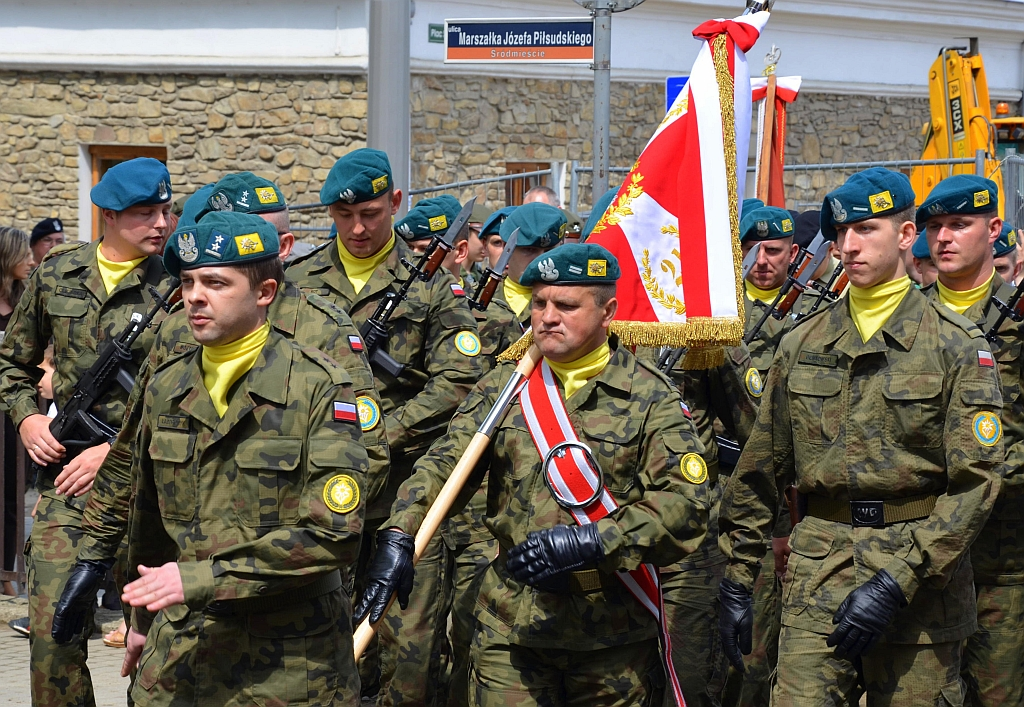 A corporal of the 21st Combat service support battalion (21st Podhale-Schützen, brigade in Sanok – Poland), carrying the unit colour (2013).